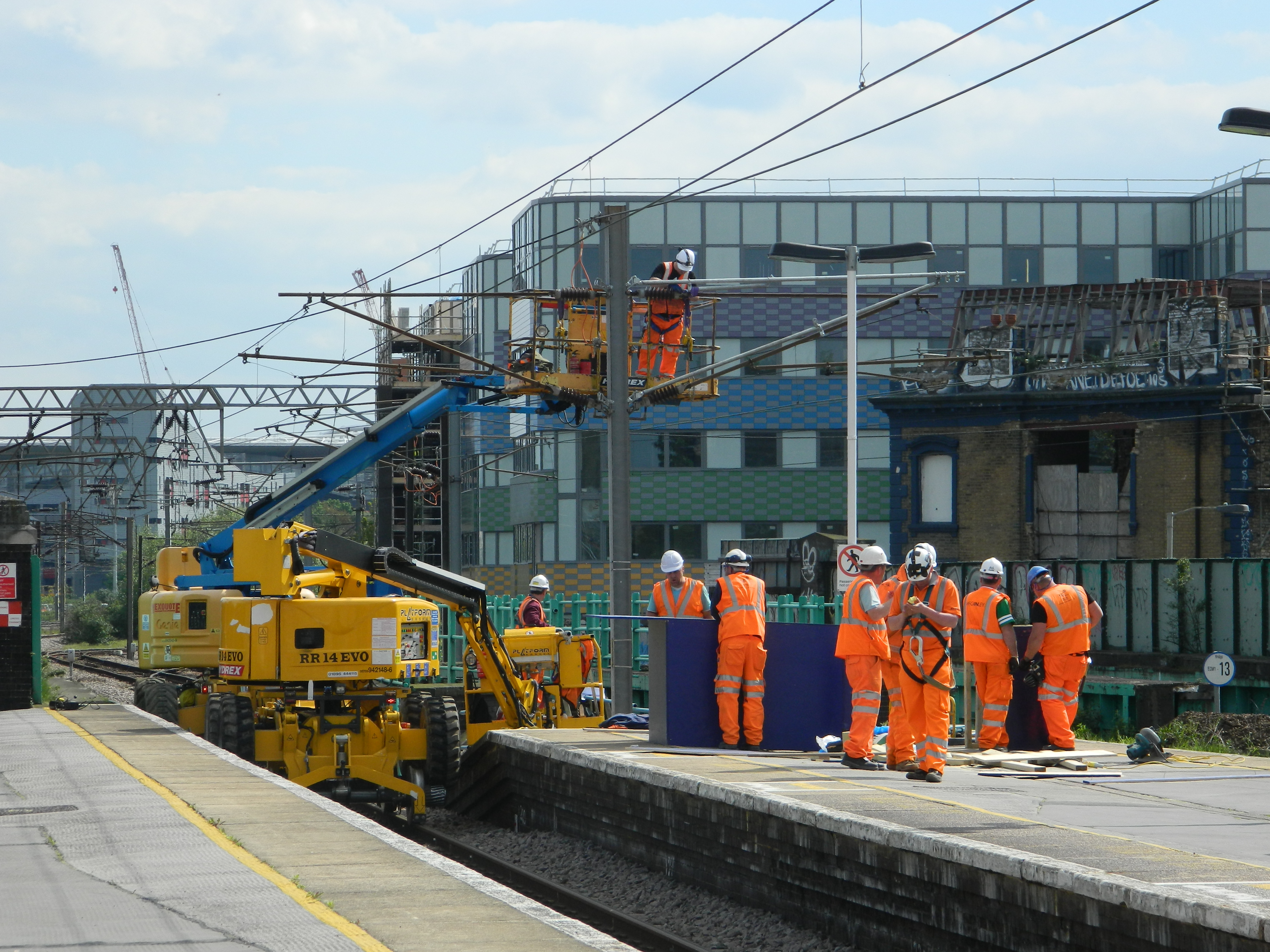 Network Rail contractors attempting to sort out electricity failure at Finsbury Park.